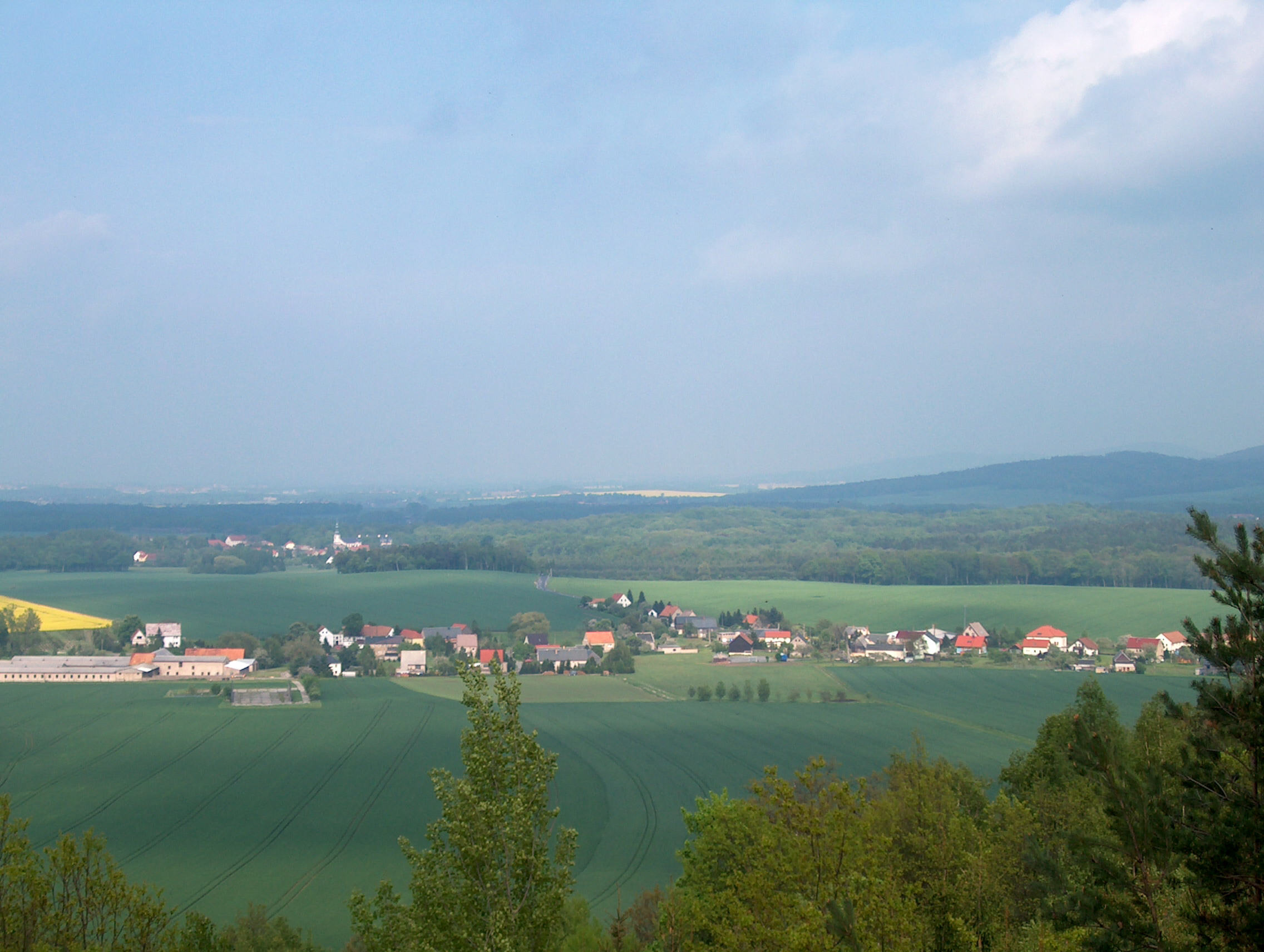 View over Naundorf from Butterberg mountain